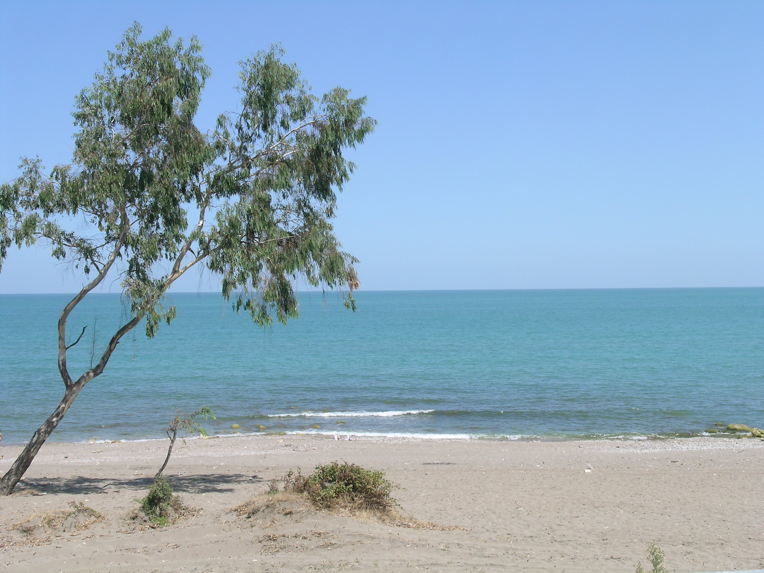 A view of Mazandaran Sea (Caspian Sea) from Noshahr beach